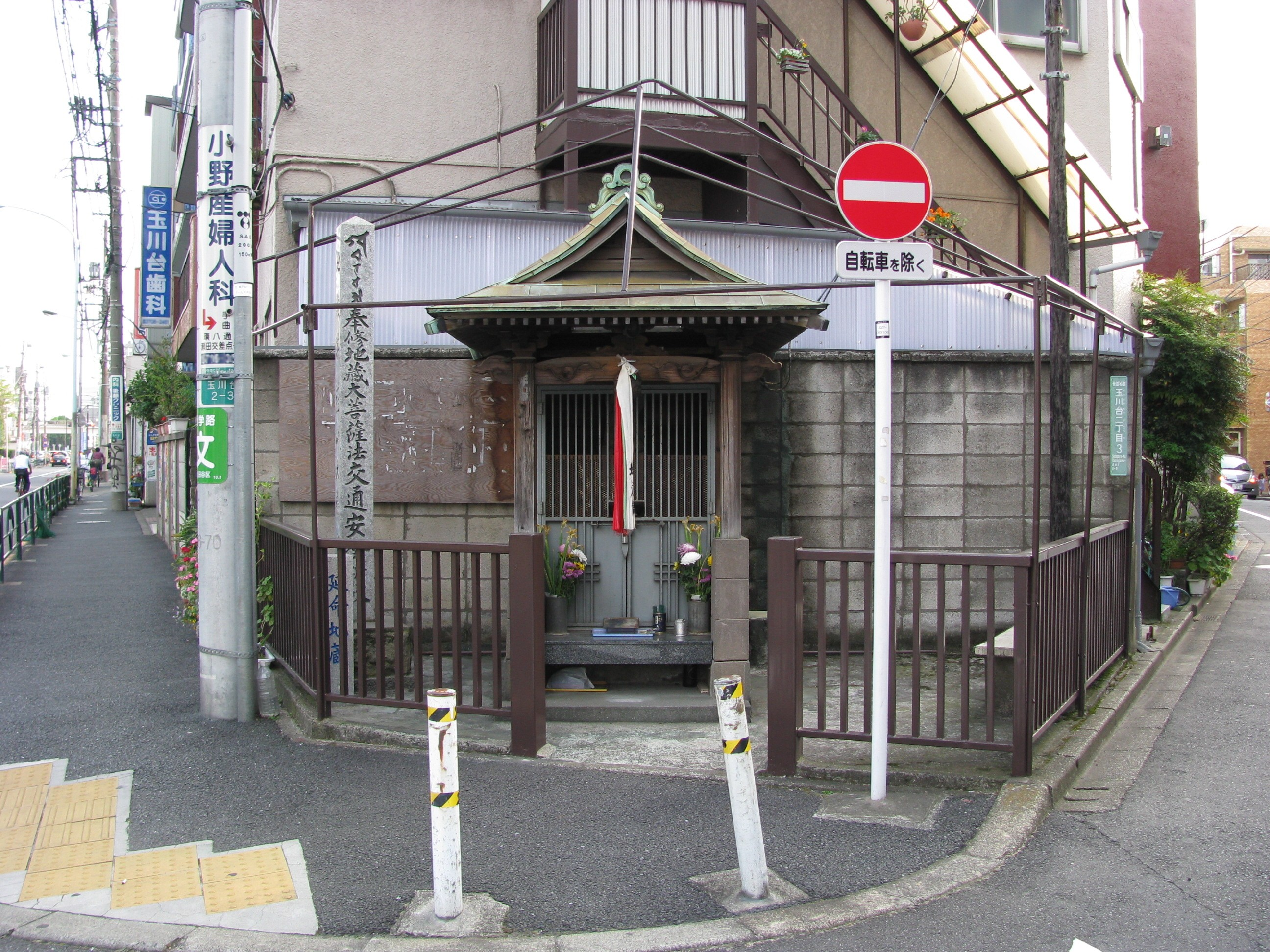 This is a Enme-Jizō on the Ōyama-dō. The Ōyama-dō is a historical street. This place is Tamagawa-dai in Setagaya, Tokyo, Japan.